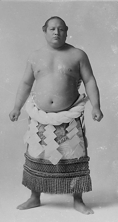 The 15th Yokozuna Hitachiyama Taniemon.